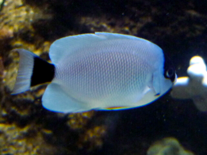 Masked Angelfish (Genicanthus personatus) at Waikiki Aquarium